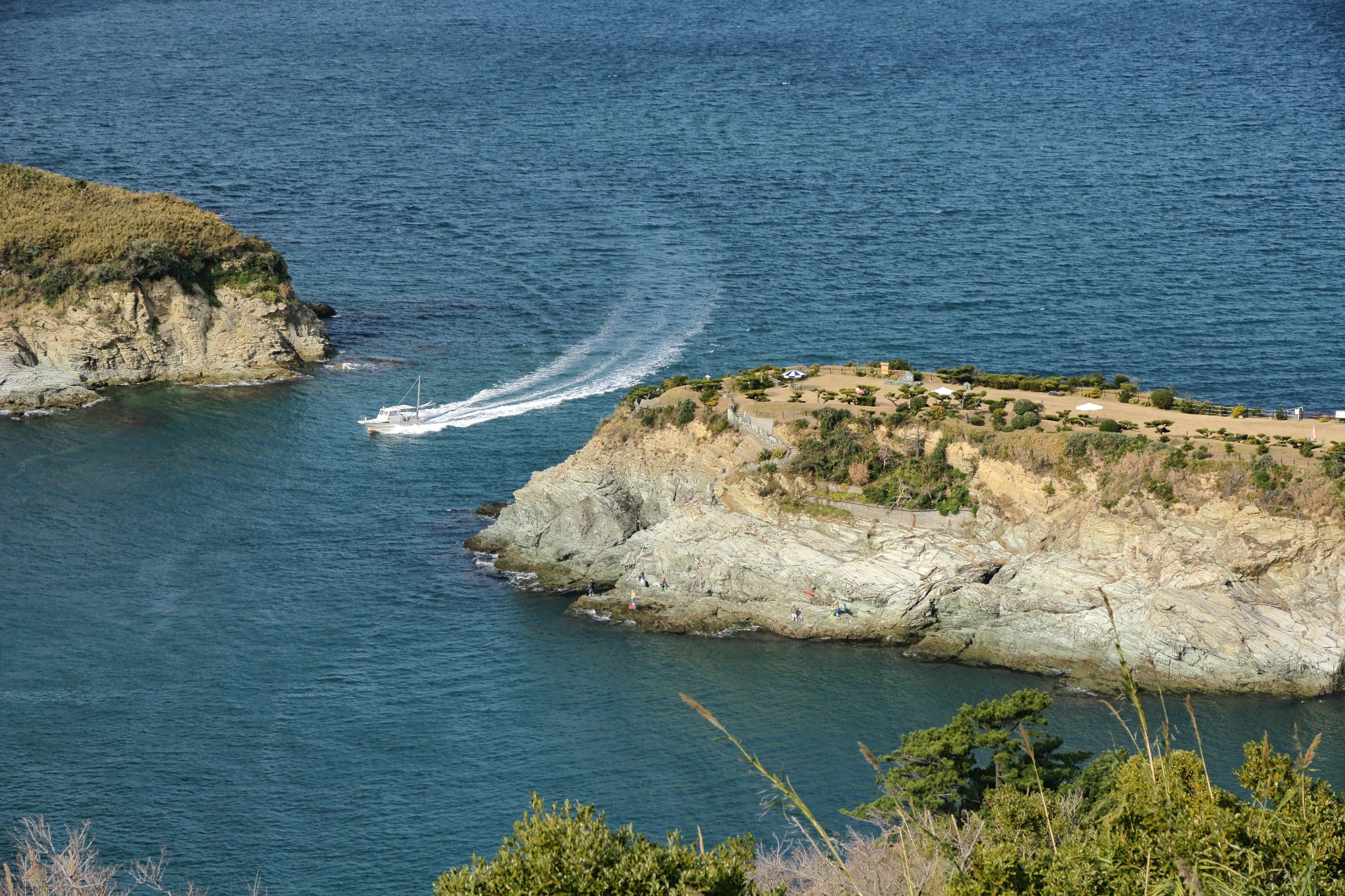 Saikazaki, Wakayama, Wakayama prefecture, Japan